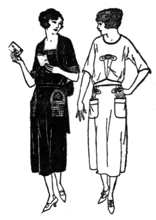 Two Nelly Don dress aprons. "Beautifully made of fine materials - ginghams, crepe and cretonne. These Dress Aprons are full cut and so neatly and carefully finished that styles may be worn for both apron and house dress. They are daintily trimmed with applique, hemstitching, braid, fancy stitching and sashes."